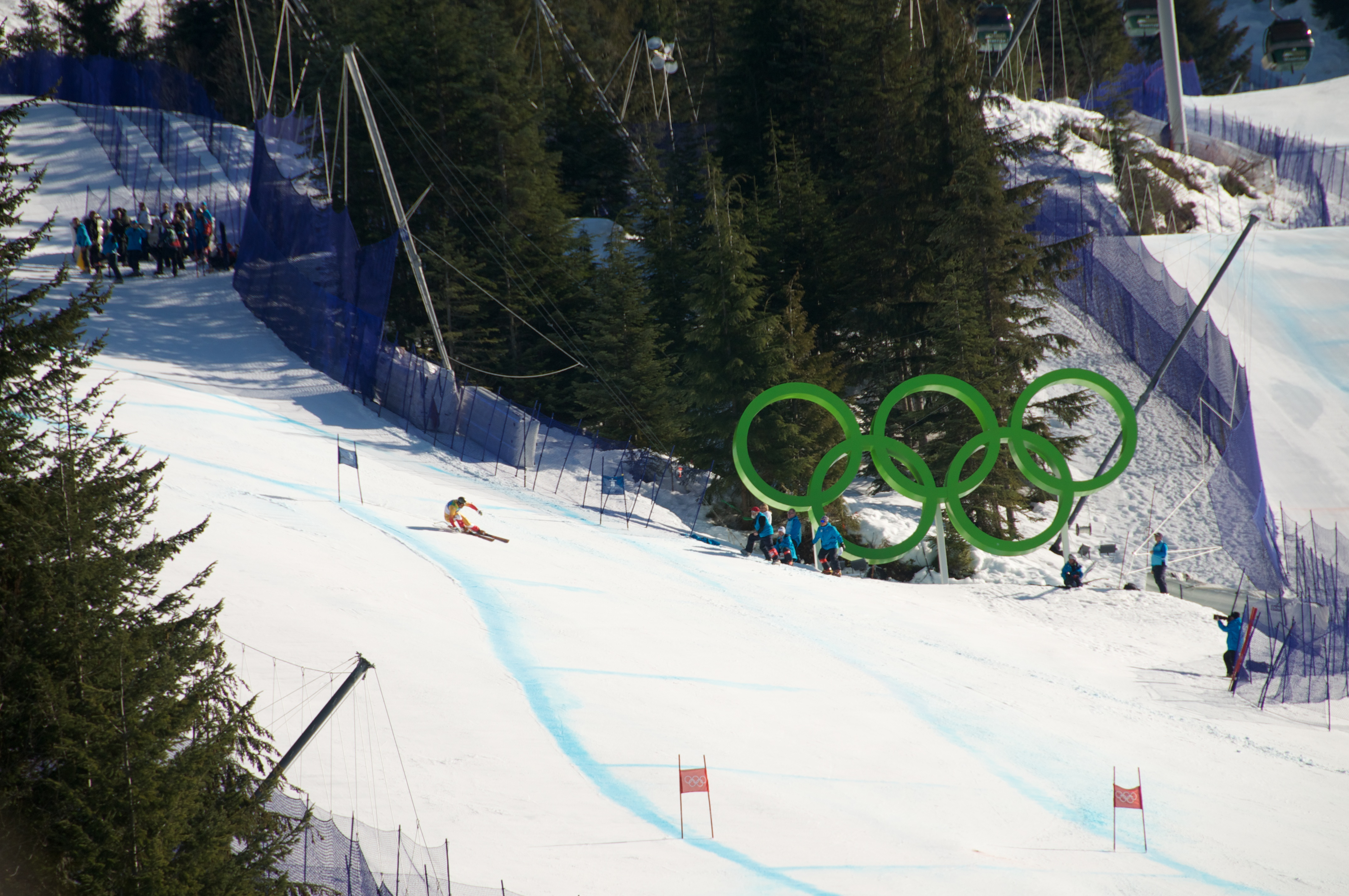 Women's Super G competition - Alpine Skiing at the 2010 Winter Olympics